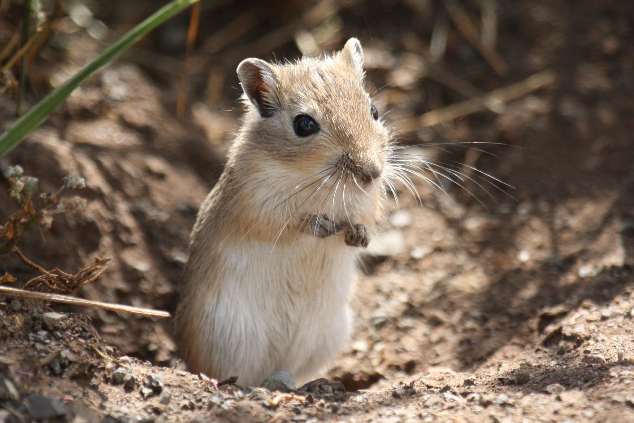 This is the wild ancestor of the pet gerbil.